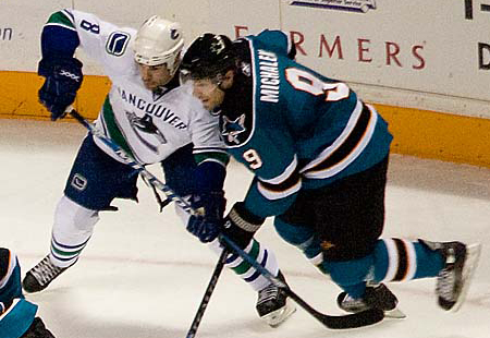 Willie Mitchell of the Vancouver Canucks and Milan Michalek of the San Jose Sharks battle for position off the faceoff.